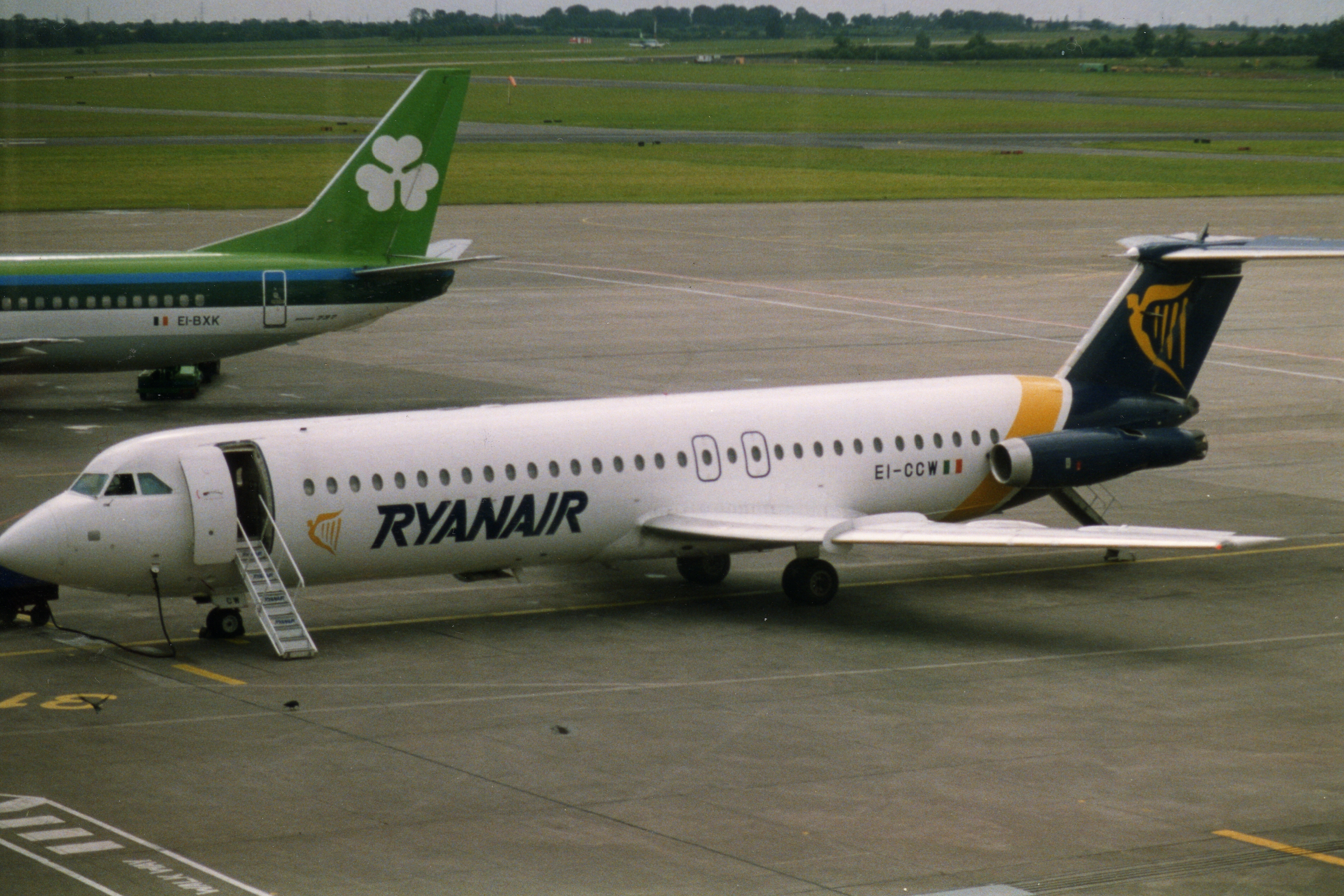 Ryanair (EI-CCW) BAC 1-11 509EW aircraft, Dublin Airport, Dublin, Republic of Ireland, July 1993